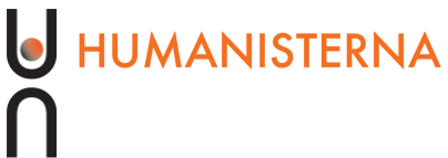 Logo of the Swedish Humanist Association (Humanisterna).